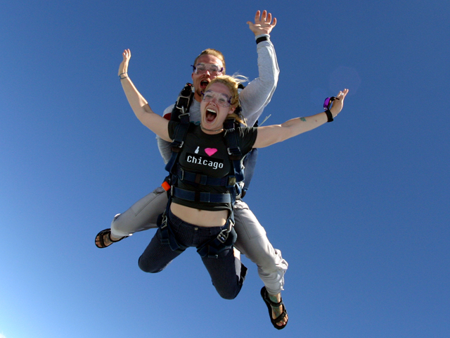 Tandem in freefall over Chicagoland Skydiving Center in Hinckley, IL